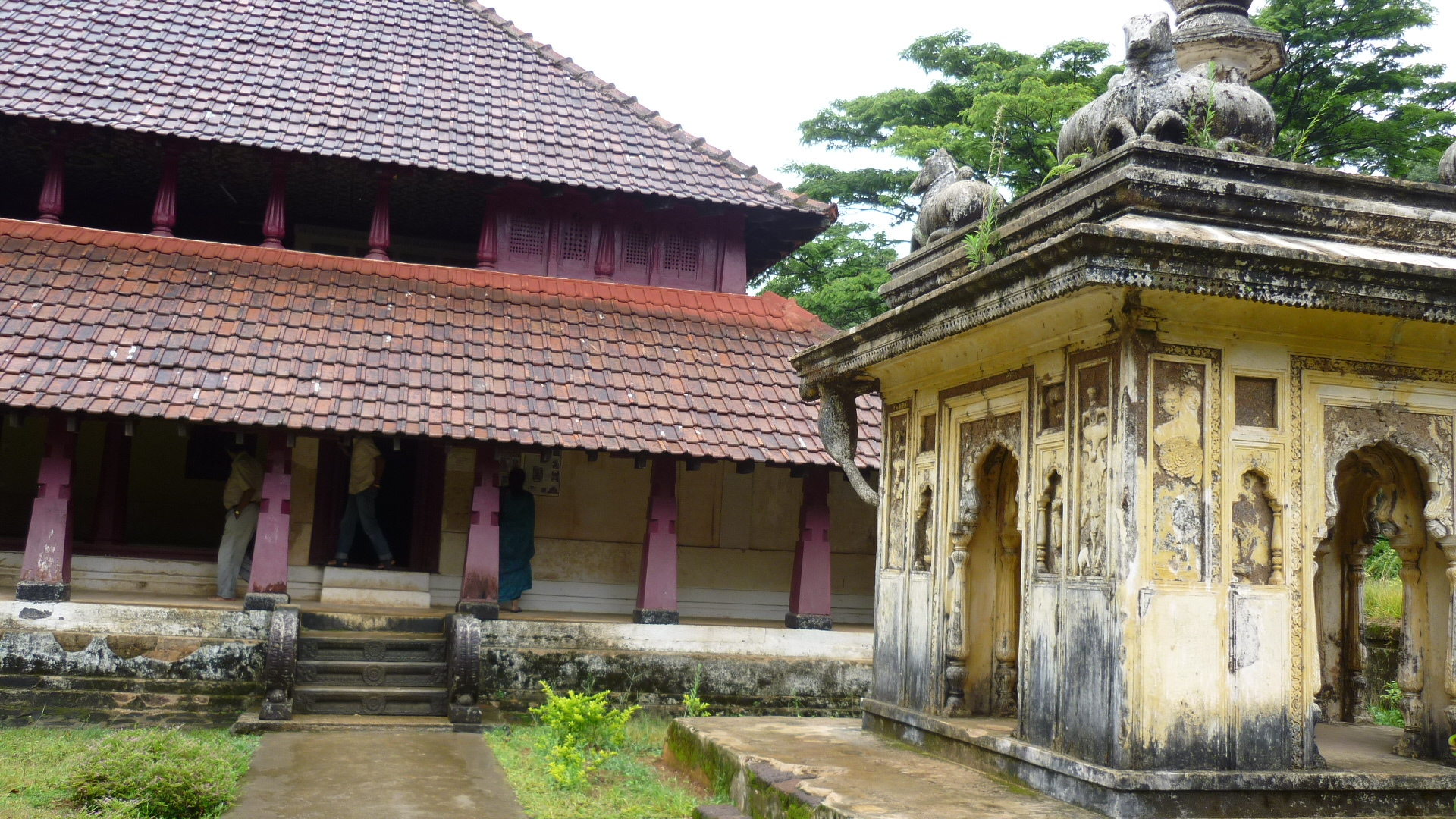 Nalakanadu Palace